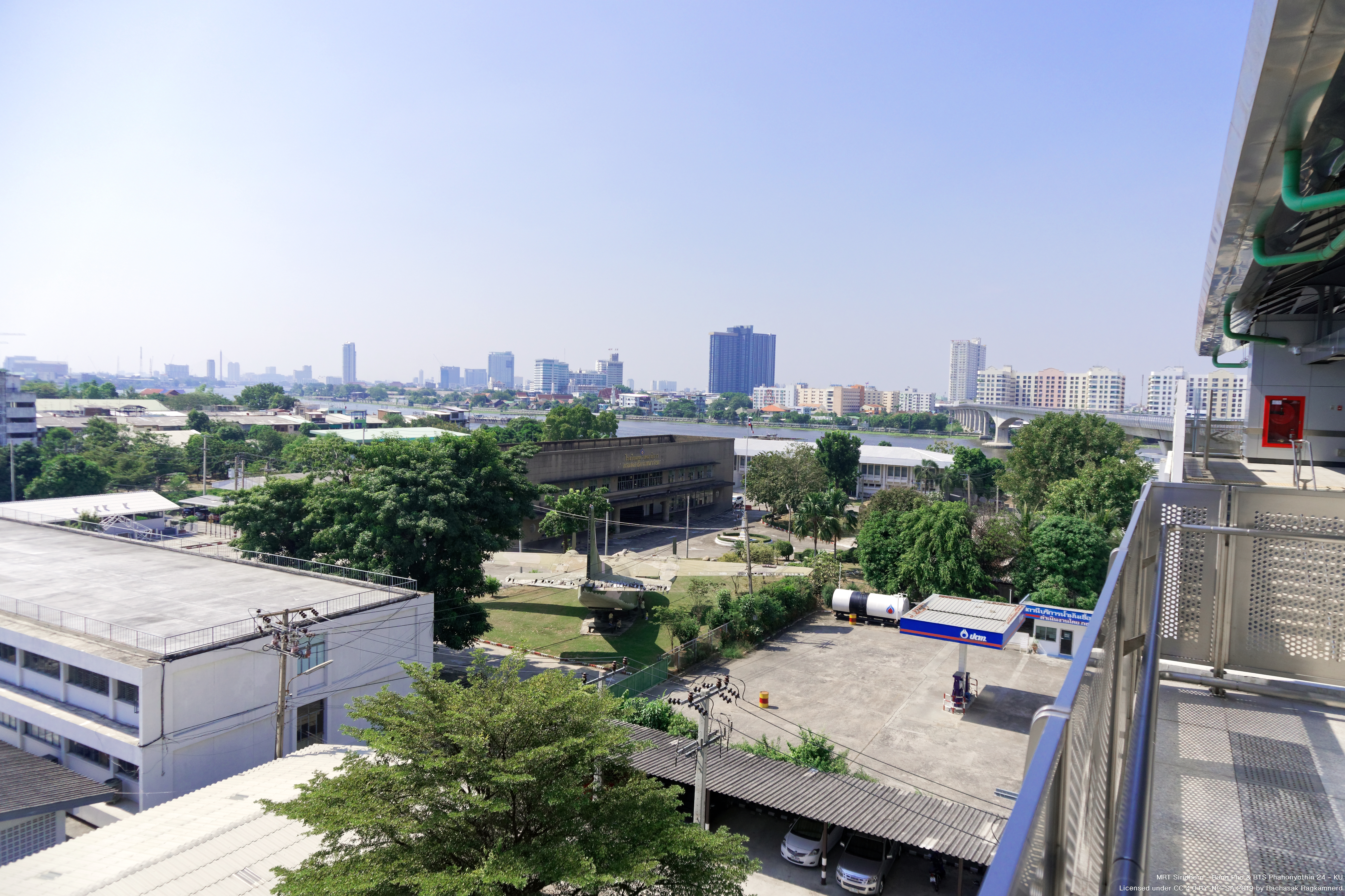 MRT Bang Pho - Quartermaster General's School